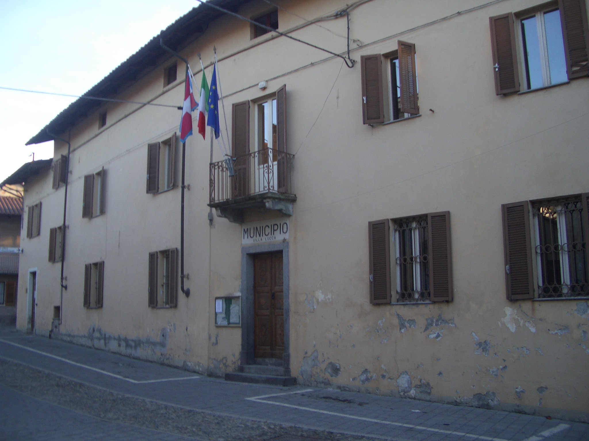 Town-hall, Viverone, Biella, Italy